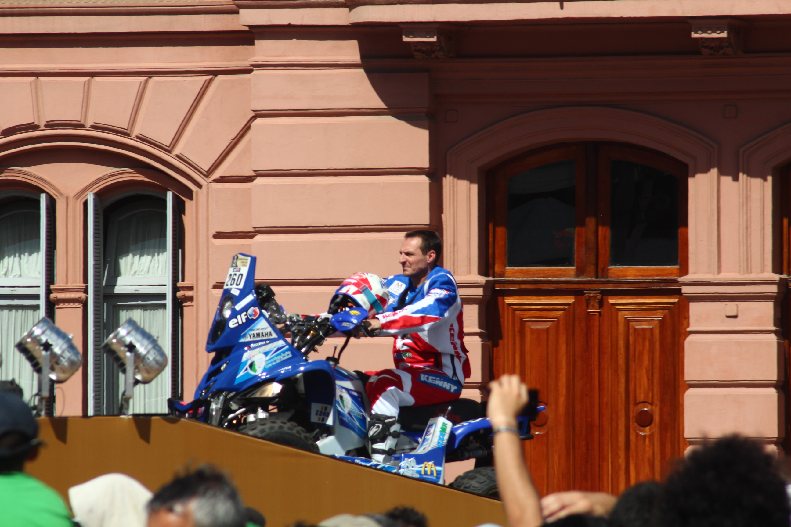 Dakar Rally 2015 start, in Buenos Aires, Argentina. Christophe Declerck.